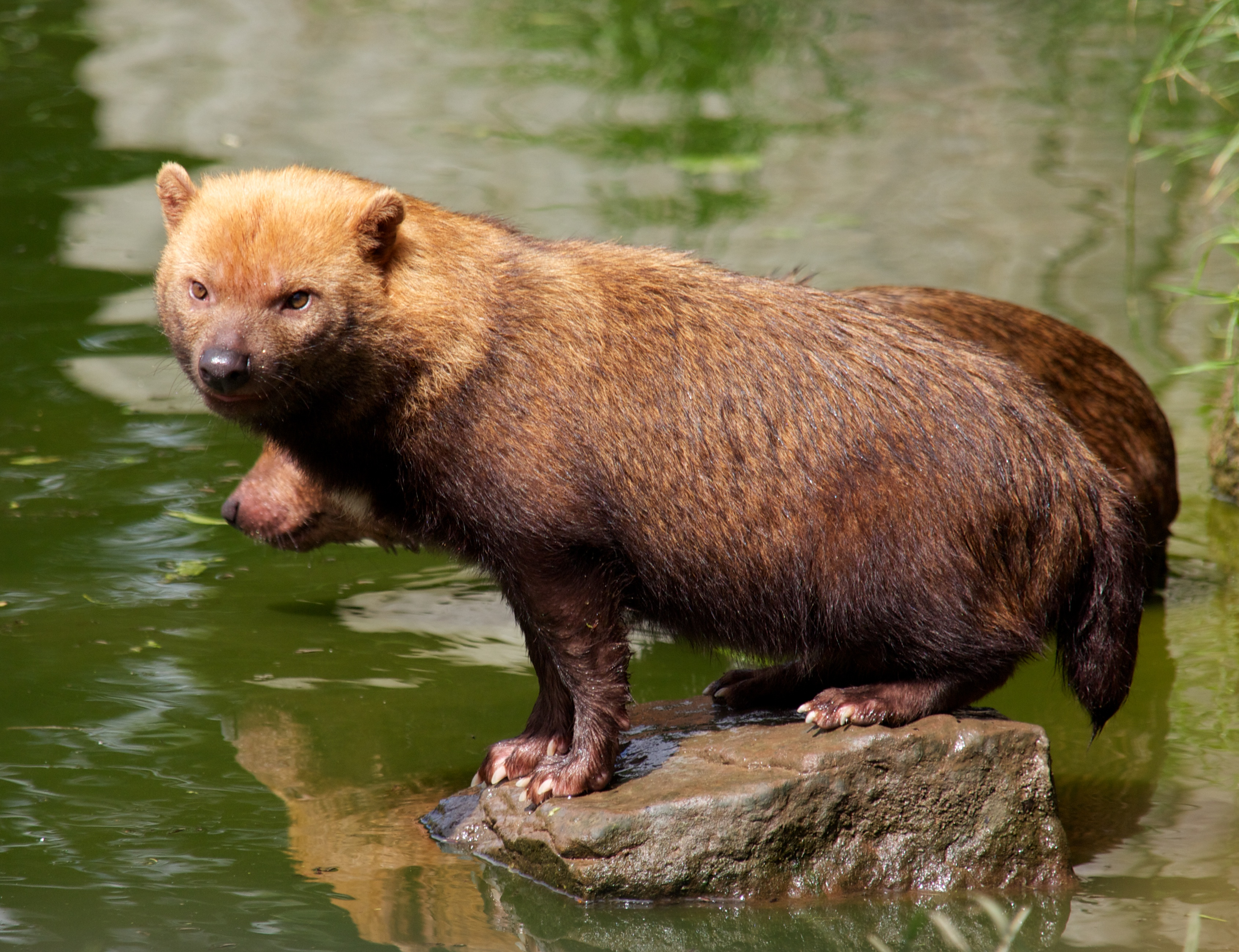 Bush Dogs. Speothos venaticus. At Chester Zoo